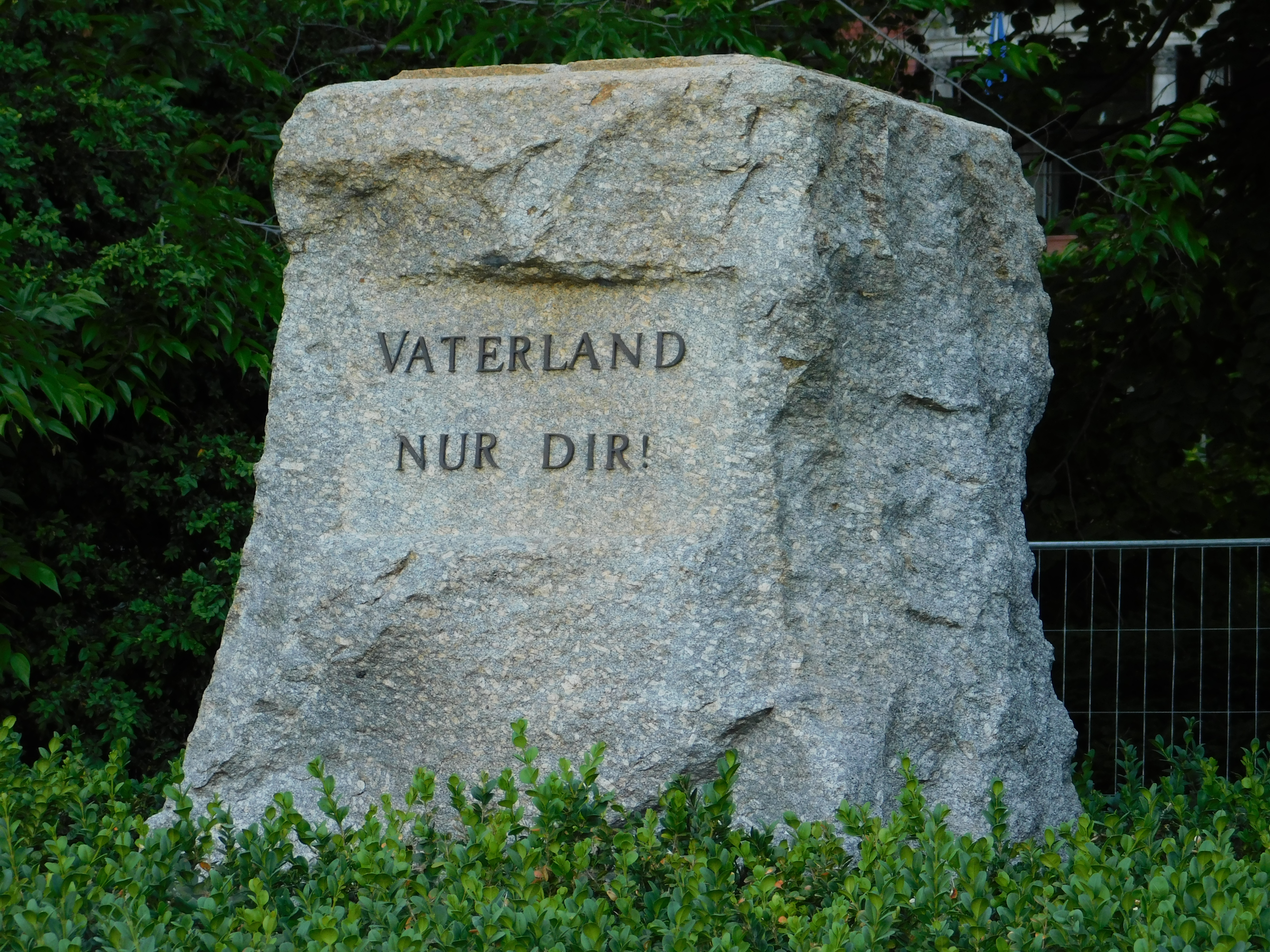 Stone with text 'Vaterland Nur Dir' near Lake Zurich in Zurich